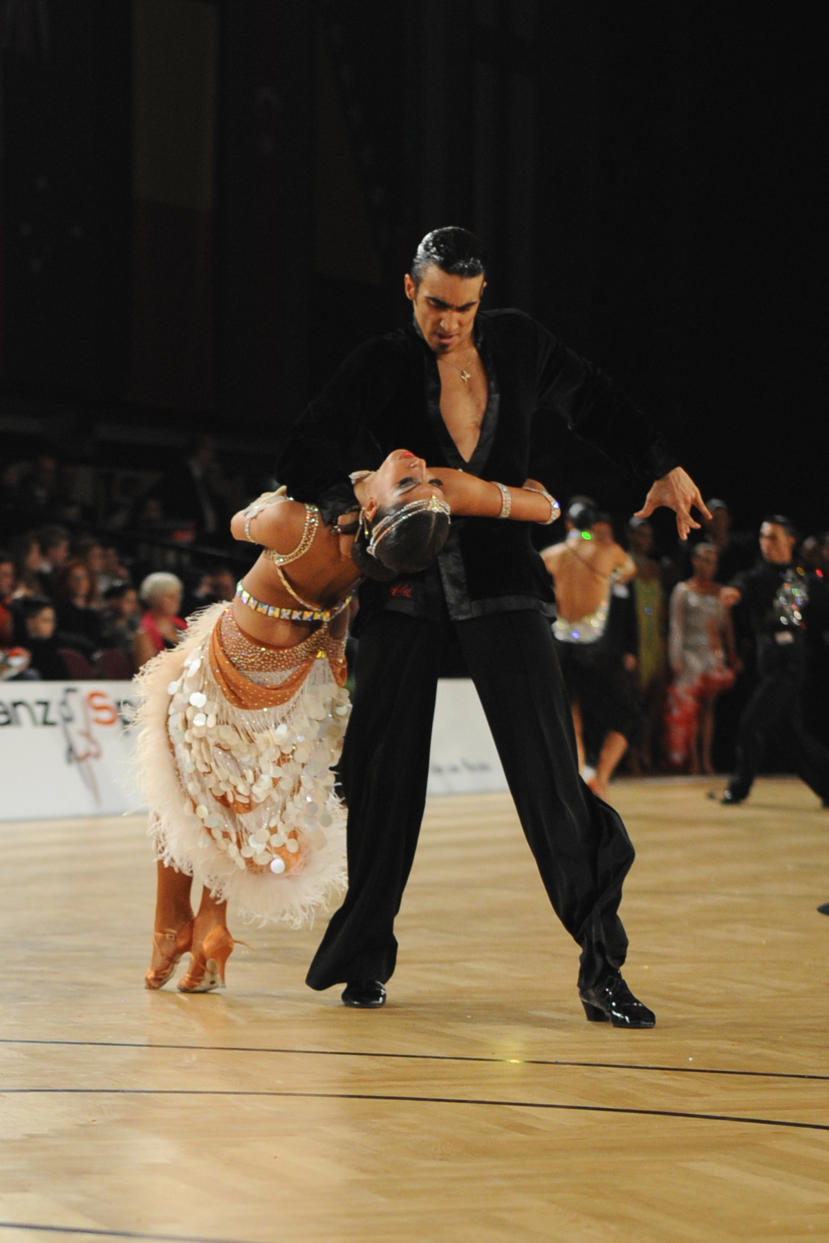 Austrian Open Championships Vienna, 2012 WDSF World Dancesport Championships Latin 16.-18. November 2012 The making of this work was supported by Wikimedia Austria. For other files made with the support of Wikimedia Austria, please see the category Supported by Wikimedia Österreich. Personality rights warning Although this work is freely licensed or in the public domain, the person(s) shown may have rights that legally restrict certain re-uses unless those depicted consent to such uses. In these cases, a model release or other evidence of consent could protect you from infringement claims.